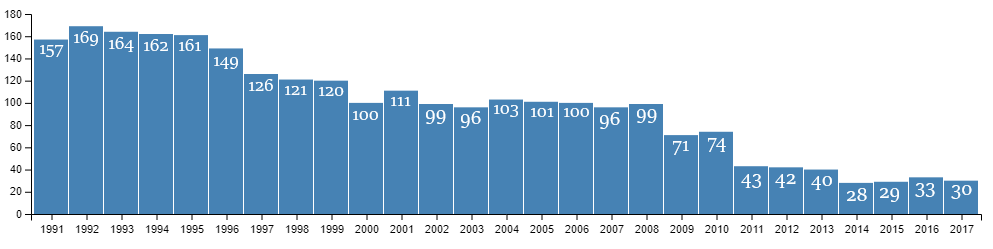 Population of Greenlandic settlement Ammassivik in 1991-2017